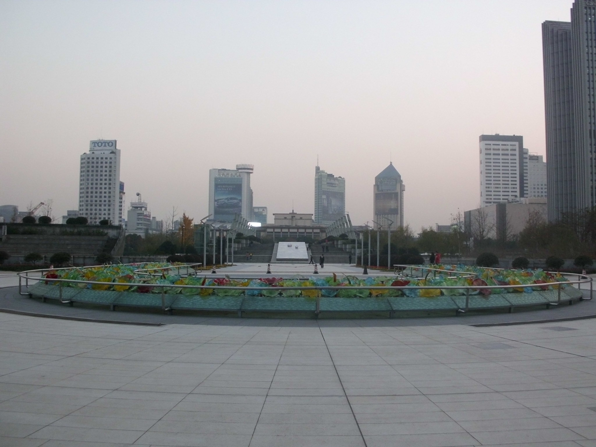 Westlake Cultural Square